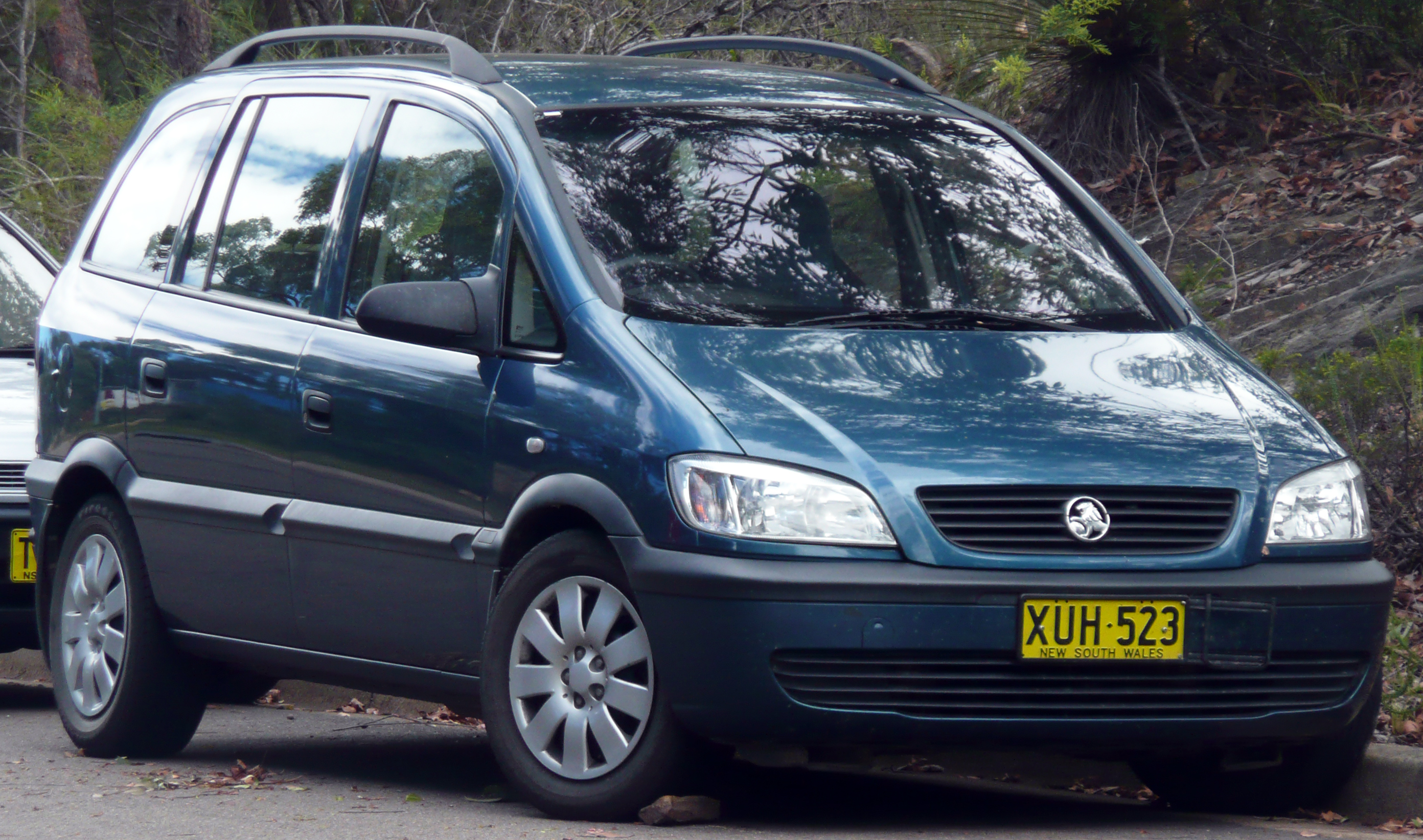 2001–2003 Holden Zafira (TT) van. Photographed in New South Wales, Australia.